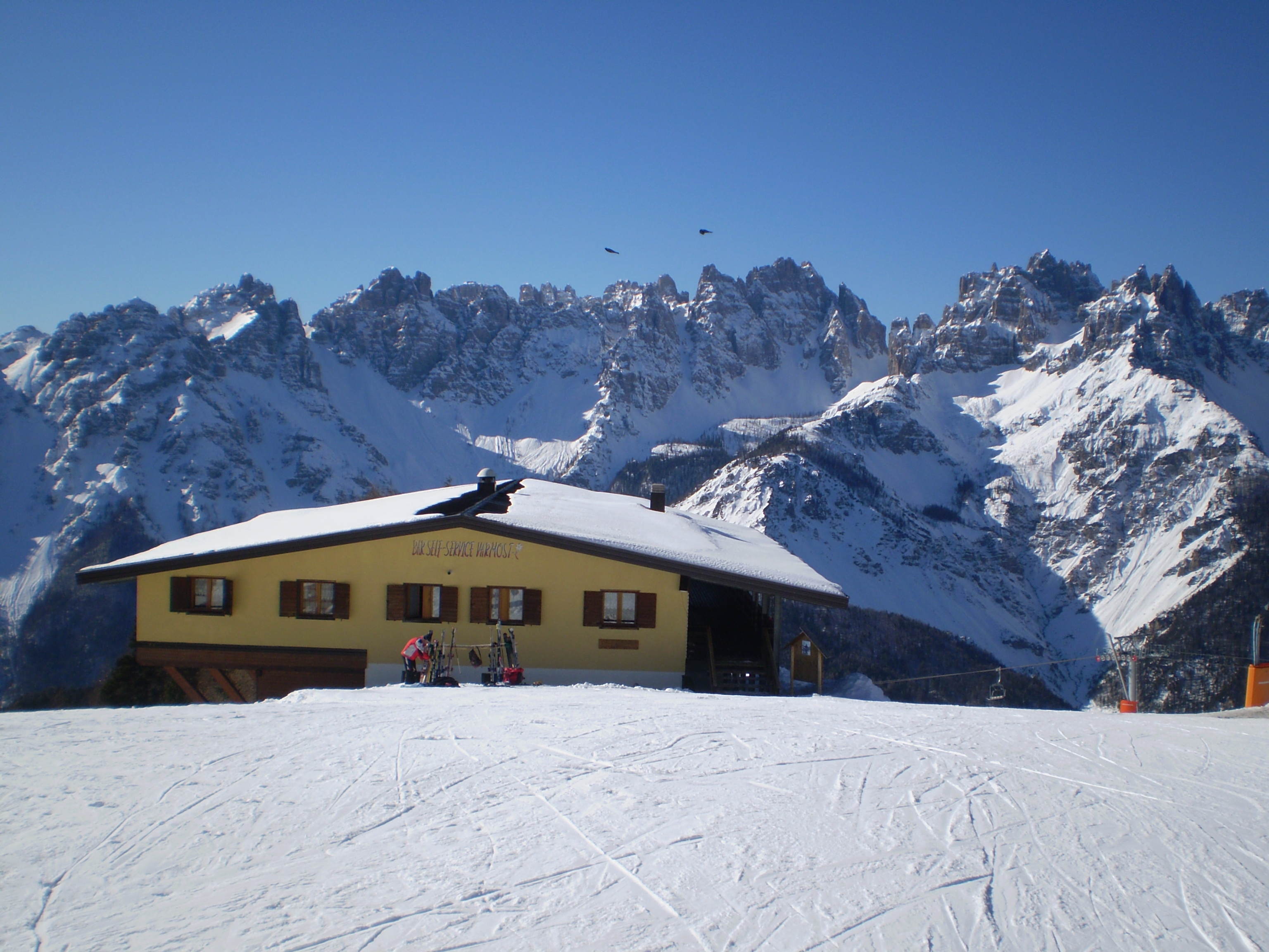 Lis dolomitis di For di Sore, in Cjargne (Italy)